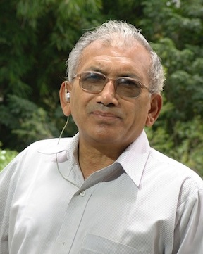 Prof. KS Valdiya